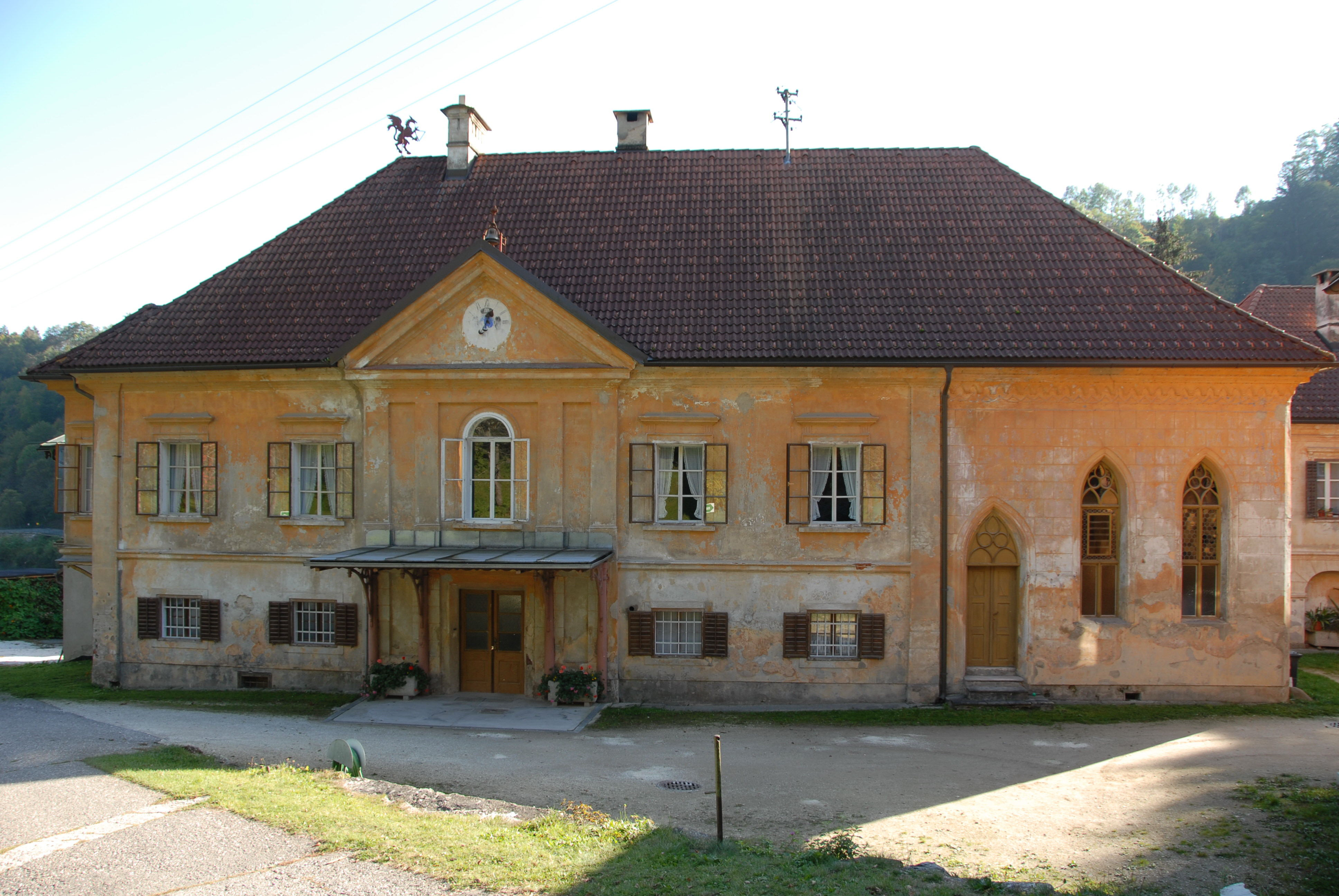 Castle Lippitzbach, municipality Ruden, district Voelkermarkt, Carinthia, Austria